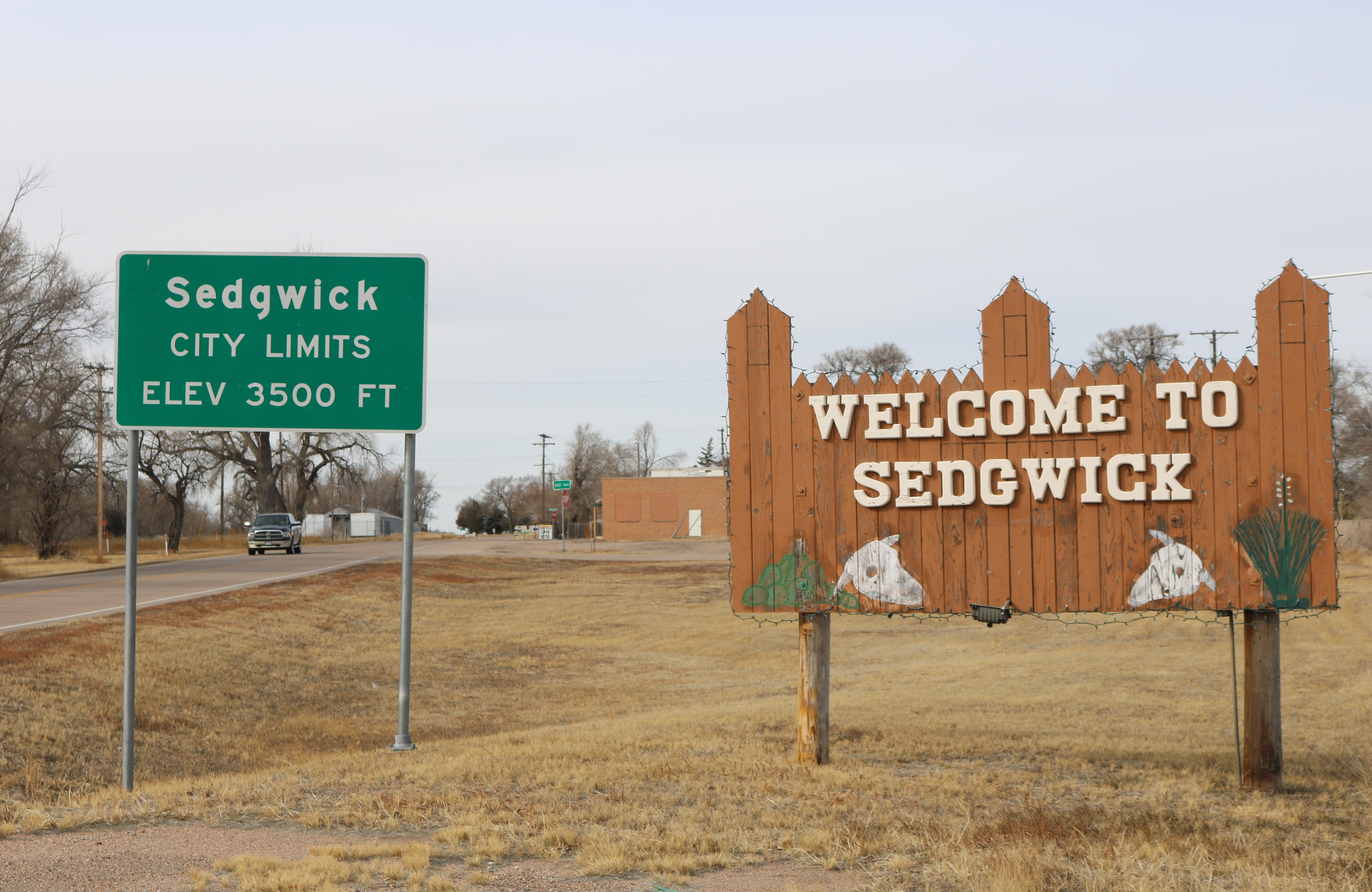 Two signs marking the entrance to Sedgwick, Colorado, in Sedgwick County. The road on the left is U.S. Route 138.